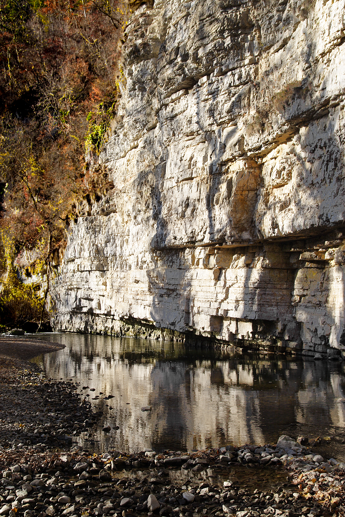 Creek Wutach at low water. Prominent geological field for the gorges outcrops of the cuesta (Schichtstufen escarpments) of south-west Germany. – Outcrop of Muschelkalk. Karstic section, where the creek’s water partly disappears underground and reappears again some 3 km later.